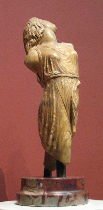 Dancing maenad of Scopas. Plaster cast in Pushkin museum after original in Dresden.